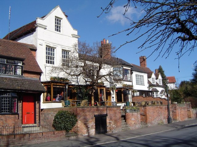 The Black Swan, frequented by actors from the Royal Shakespeare Theatre across the road.